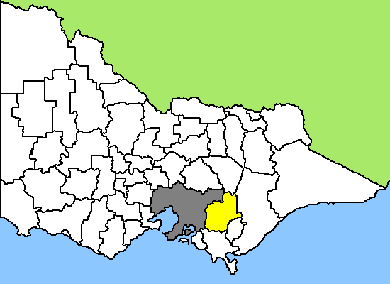 Map of Victoria/Australia, LGA of Baw Baw Shire highlighted